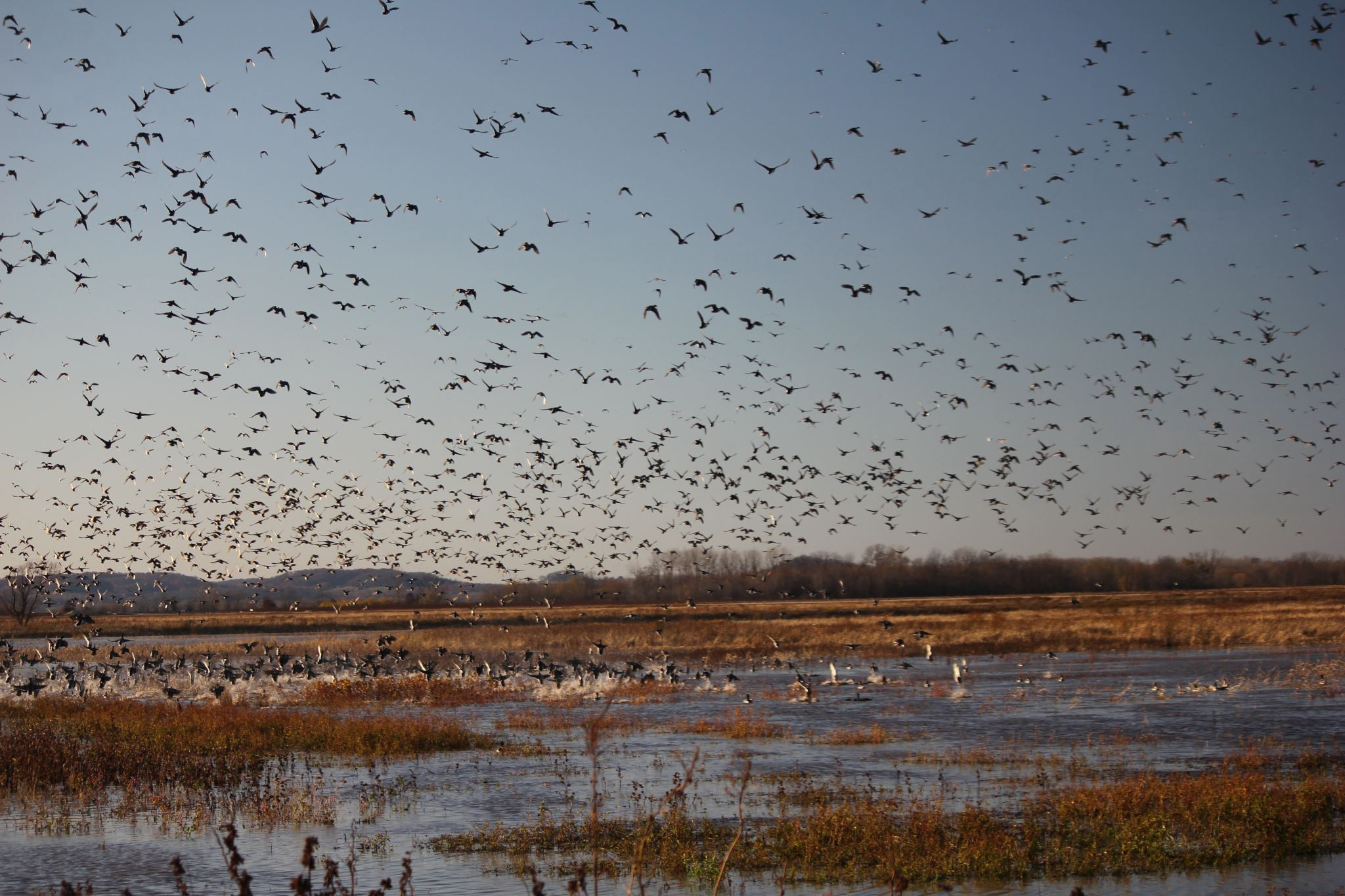 Clarence Cannon National Wildlife Refuge, MO November 2011 Photo: USFWS